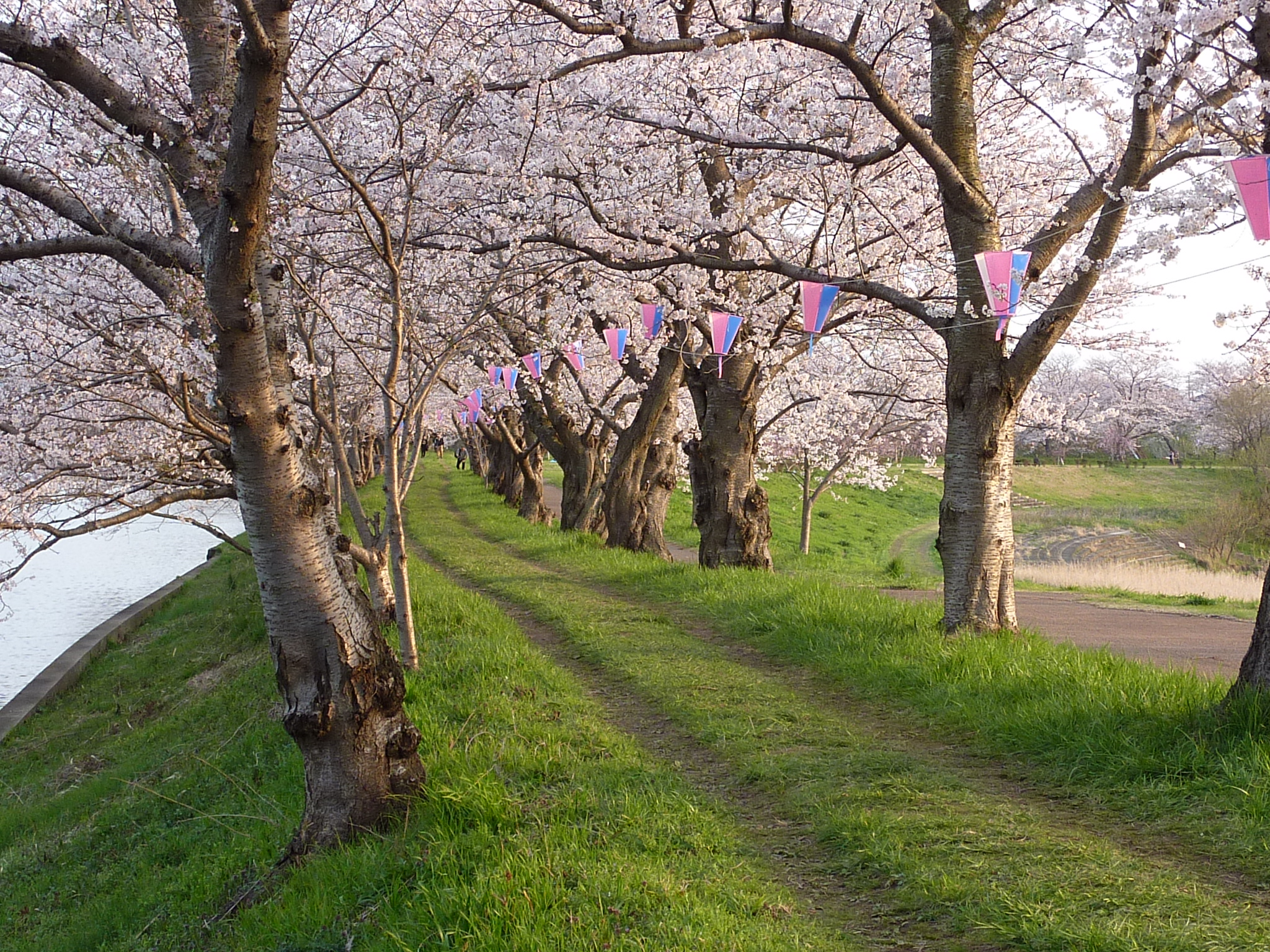 Line of cherry blossom (sakura) trees in Fukuokazeki Sakura Park in Tsukubamirai, Ibaraki, Japan